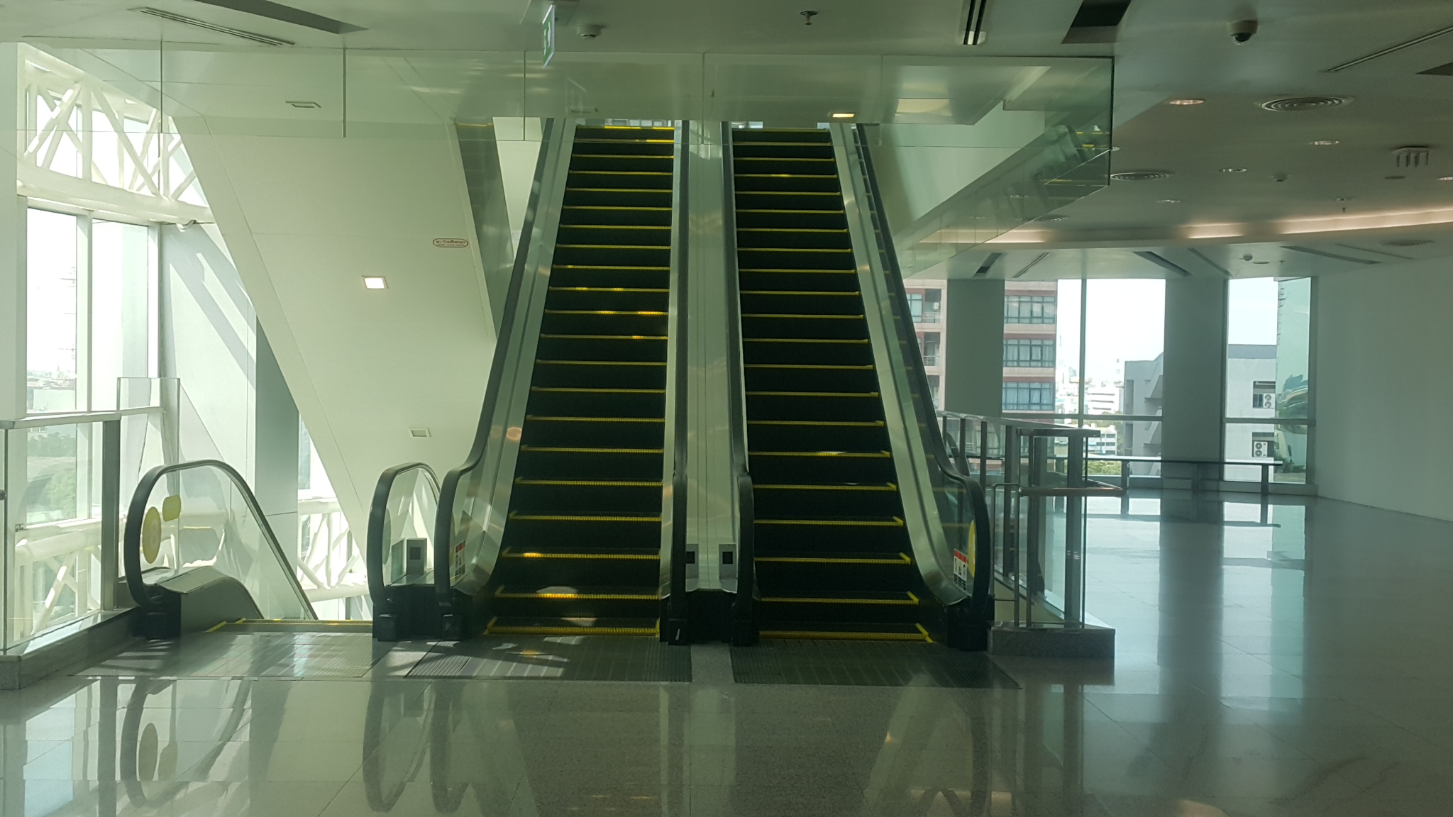 Escalators in Wannasorn Tower, Bangkok